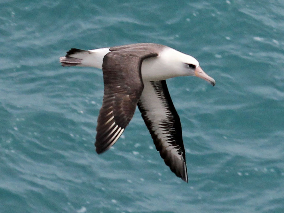 Laysan Albatross (Phoebastria immutabilis) - Kilauea Lighthouse on Kauai, Hawaii.